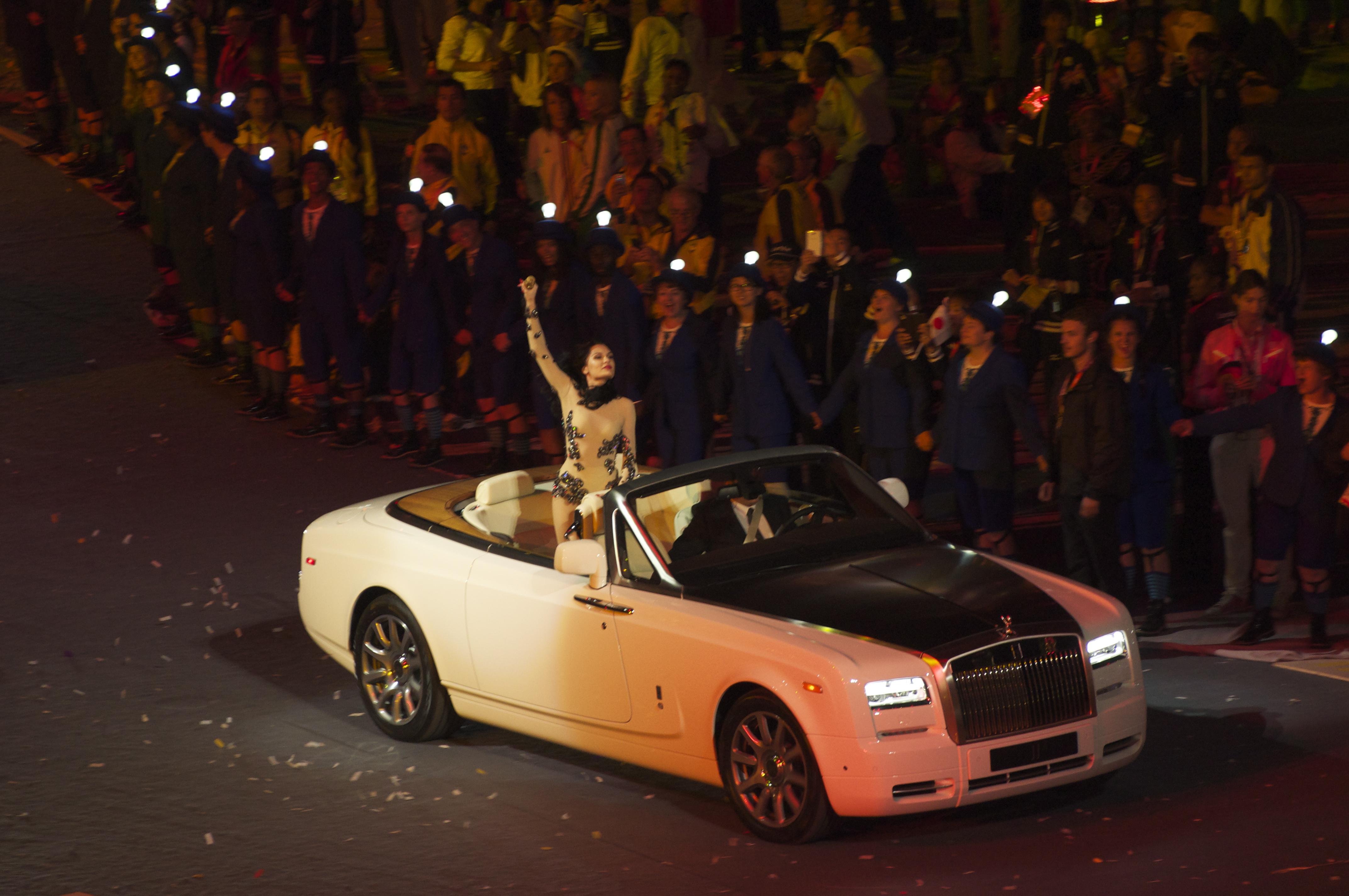 Jessie J performing "Price Tag" in the closing ceremony of the 2012 Summer Olympics.